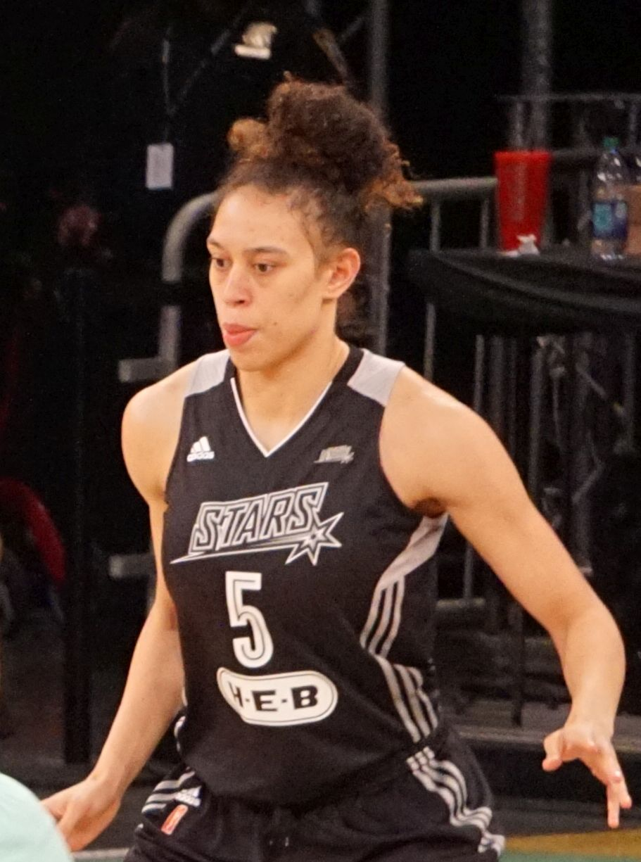 Dearica Hamby, player for San Antonio Silver Stars. in a game between San Antonio and the New York Liberty